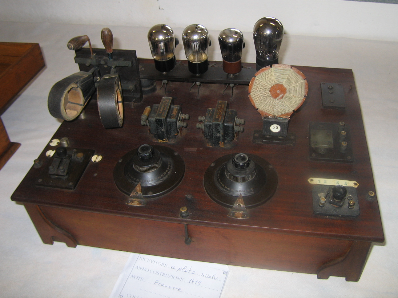 French 4 valve regenerative radio receiver from 1919. Invented in 1913 by Edwin Armstrong, the regenerative receiver was widely used until it was superseded in the 1930s by the superheterodyne receiver. This one uses 4 valves; a regenerative detector, followed by 3 audio amplifiers to provide enough power to drive the horn loudspeaker. It uses the Armstrong or "tickler" circuit, in which the signal from the plate circuit of the detector tube is fed back into the grid circuit by magnetically coupled coils, to increase the gain and selectivity. This is accomplished by the dual "honeycomb coil" vario-coupler (left). One coil is the tuned circuit of the receiver, connected to the grid. The other is the "tickler" coil in the plate circuit. The coils are hinged so they can be moved together or apart to change the coupling, which controls the amount of feedback.